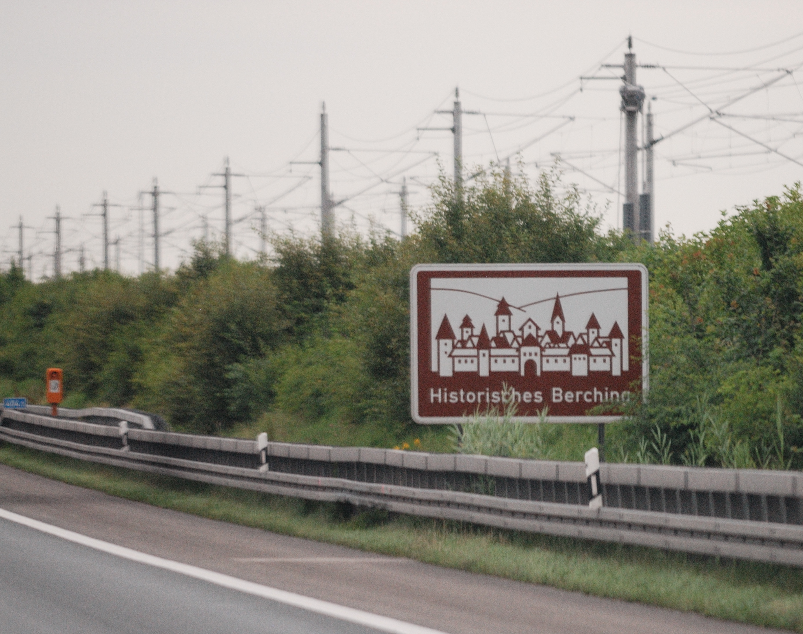 Road sign for Berching. Road shot from A 9